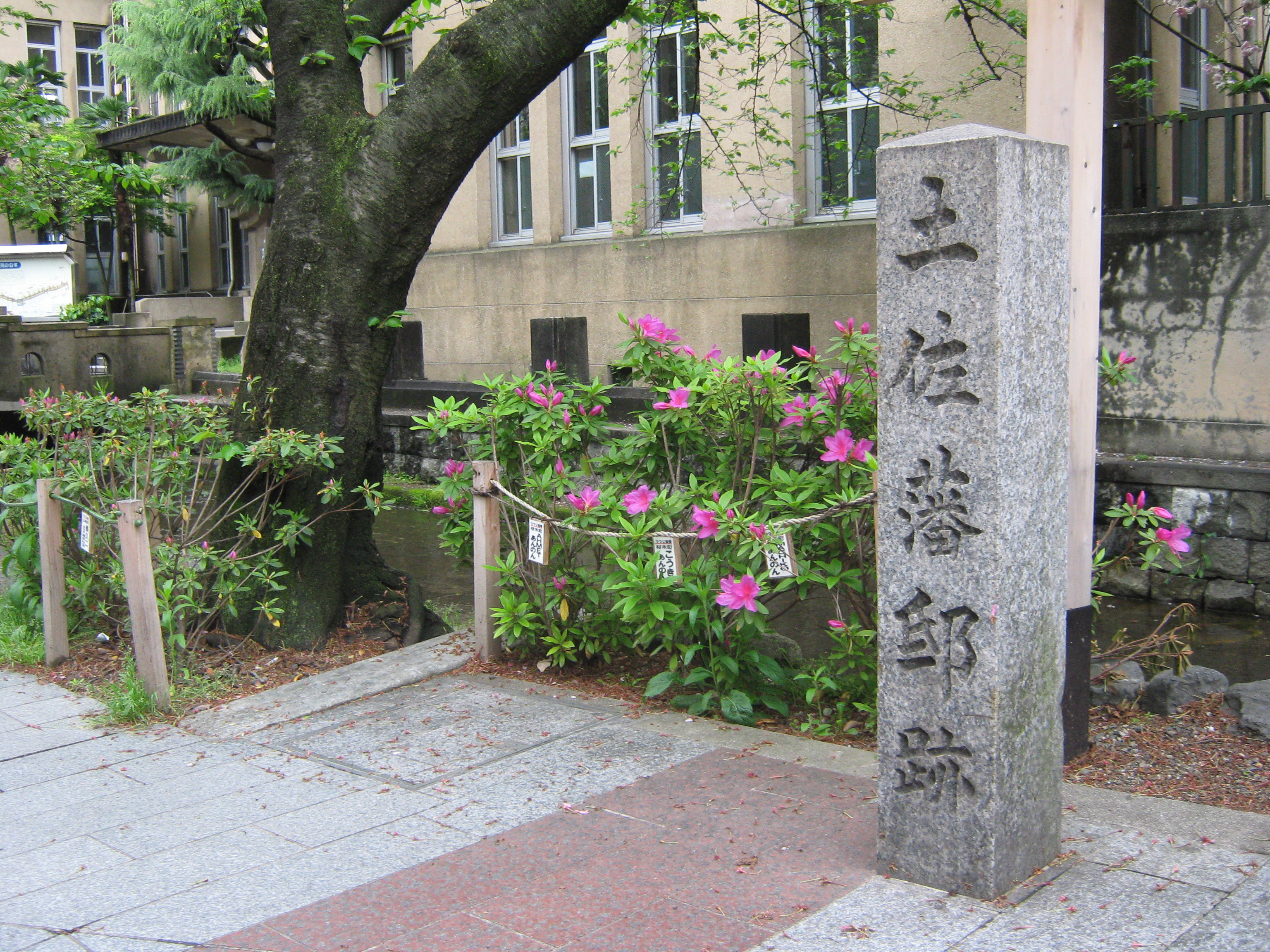 Memorial Stele at Tosa Domaine residence